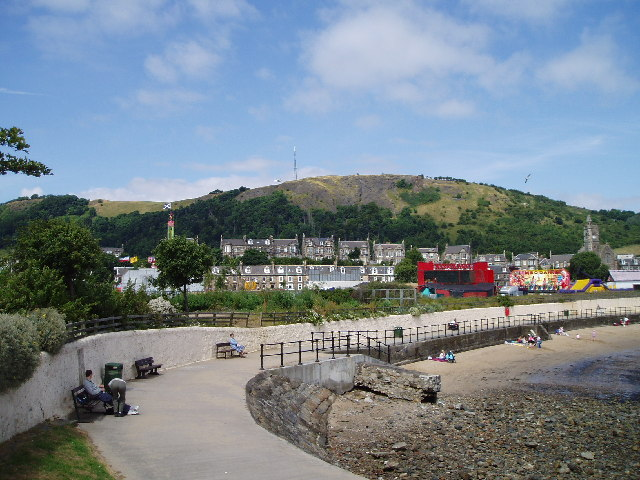 Burntisland: View over the links towards victorian villas which have a grand view over the Forth. The hill behind with the transmitter on it is called The Binn.